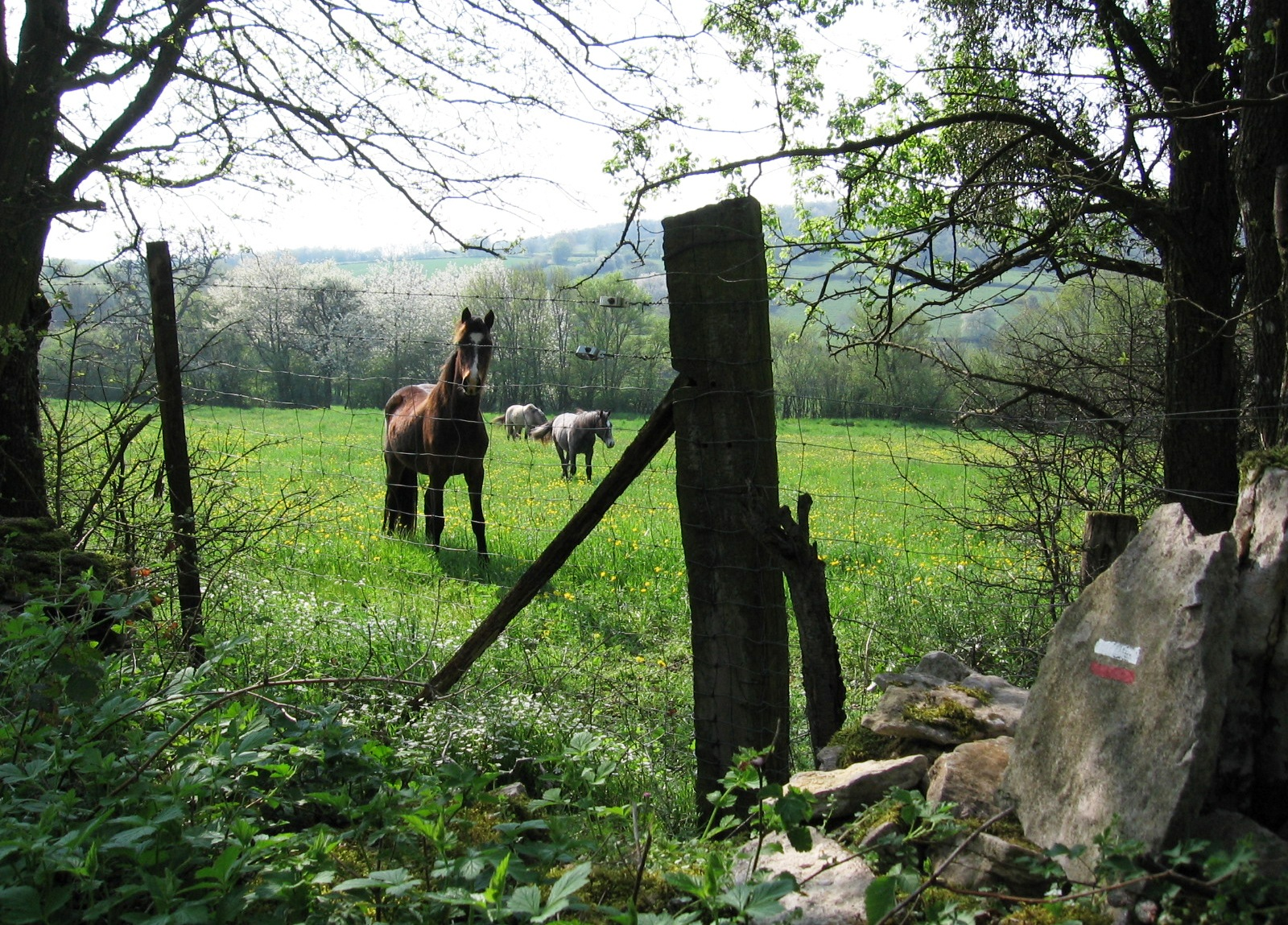 Trail blaze painted on a stone alongside long-distance footpath GR 76a near Blanot, Saône-et-Loire, France (with a local onlooker).